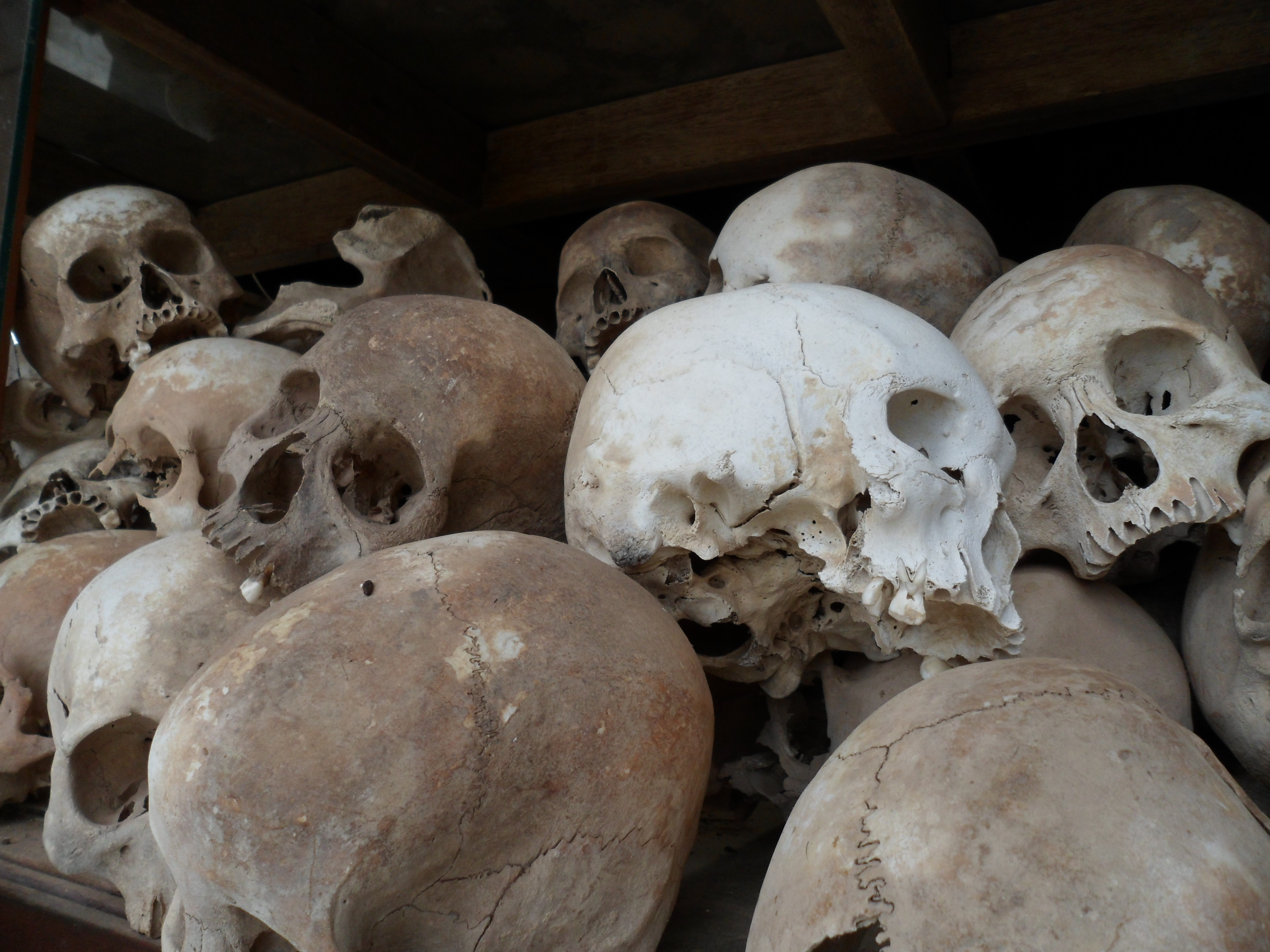 This is an image of a statue of skulls. The victims were tortured and killed at the S21 (Tuol Sleng) concentration camp in Phnom Penh, Cambodia during the Khmer Rouge.